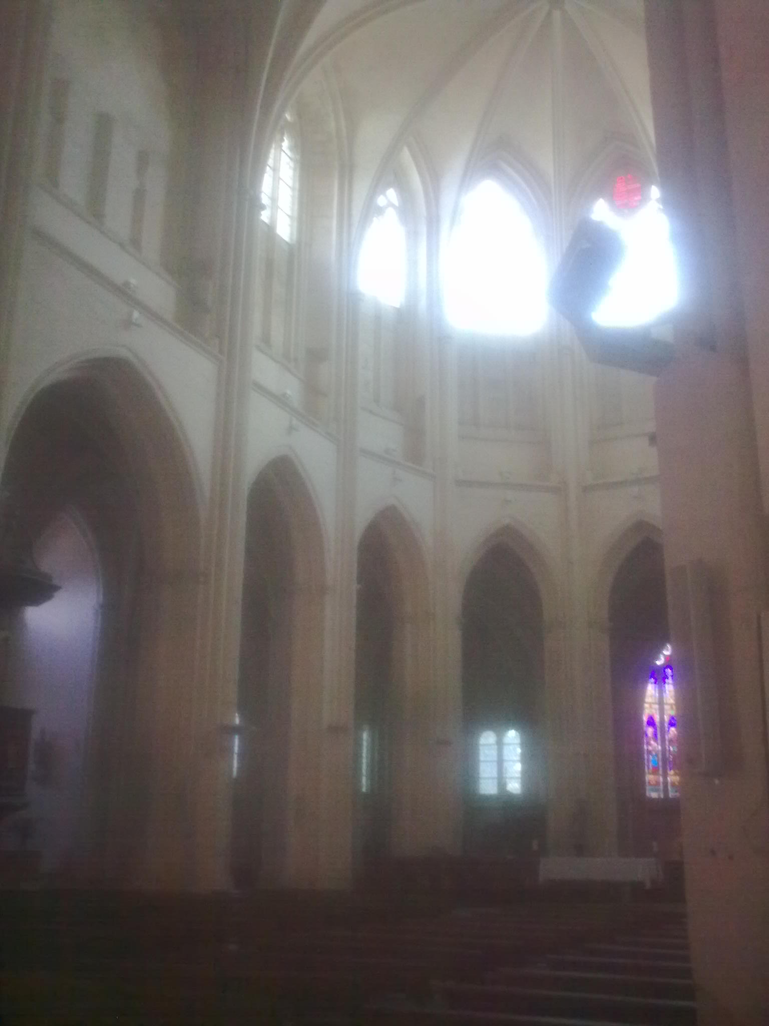 abbbatiale Saint-Guinefort Saint satur: vue from choeur